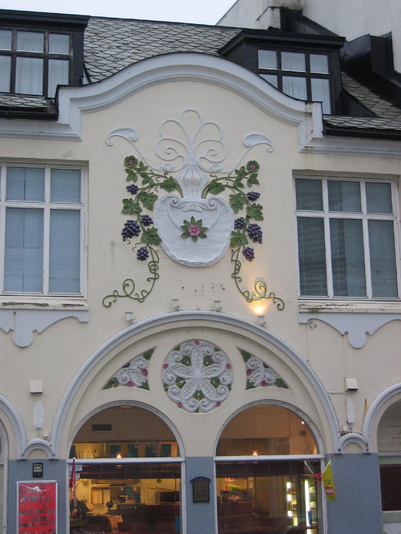 Decorated wall of a building in Ålesund, Norway.